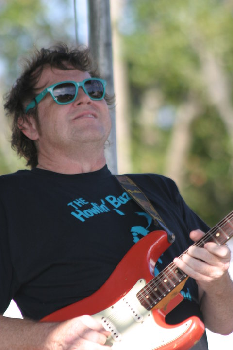 Photo of American musician Craig Van Tilbury in Crystal River, FL in 2010